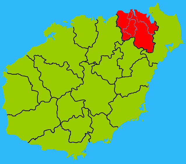 Locator map of Haikou prefecture on Hainan Island — in Hainan Province, Southeast China.